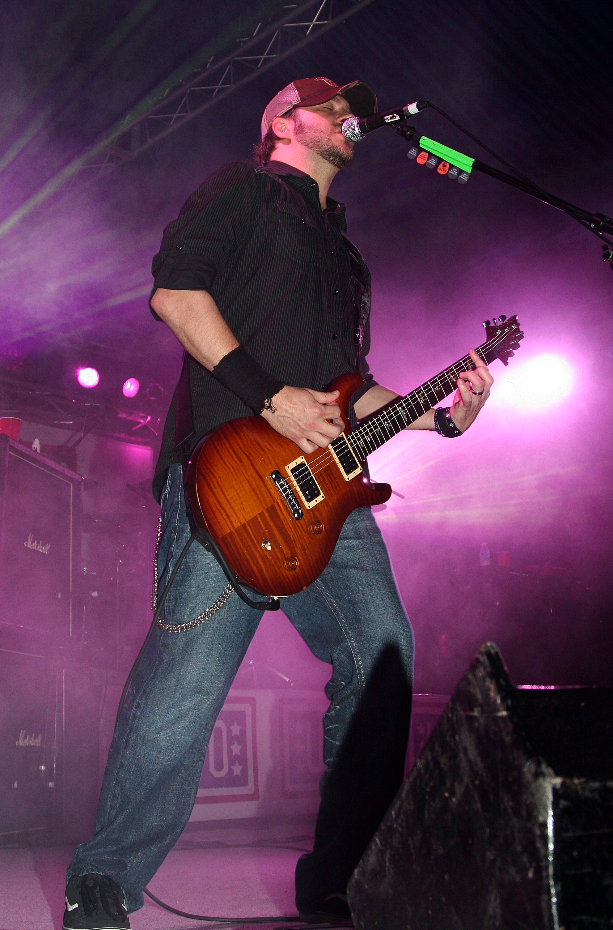 Lead guitarist Troy McLawhorn rocks out during a performance held at the parade deck at Marine Corps Air Station Iwakuni, Japan, 26 May 2009. The grunge band Seether went on a weeklong United Service Organizations tour to show their appreciation for the armed services.